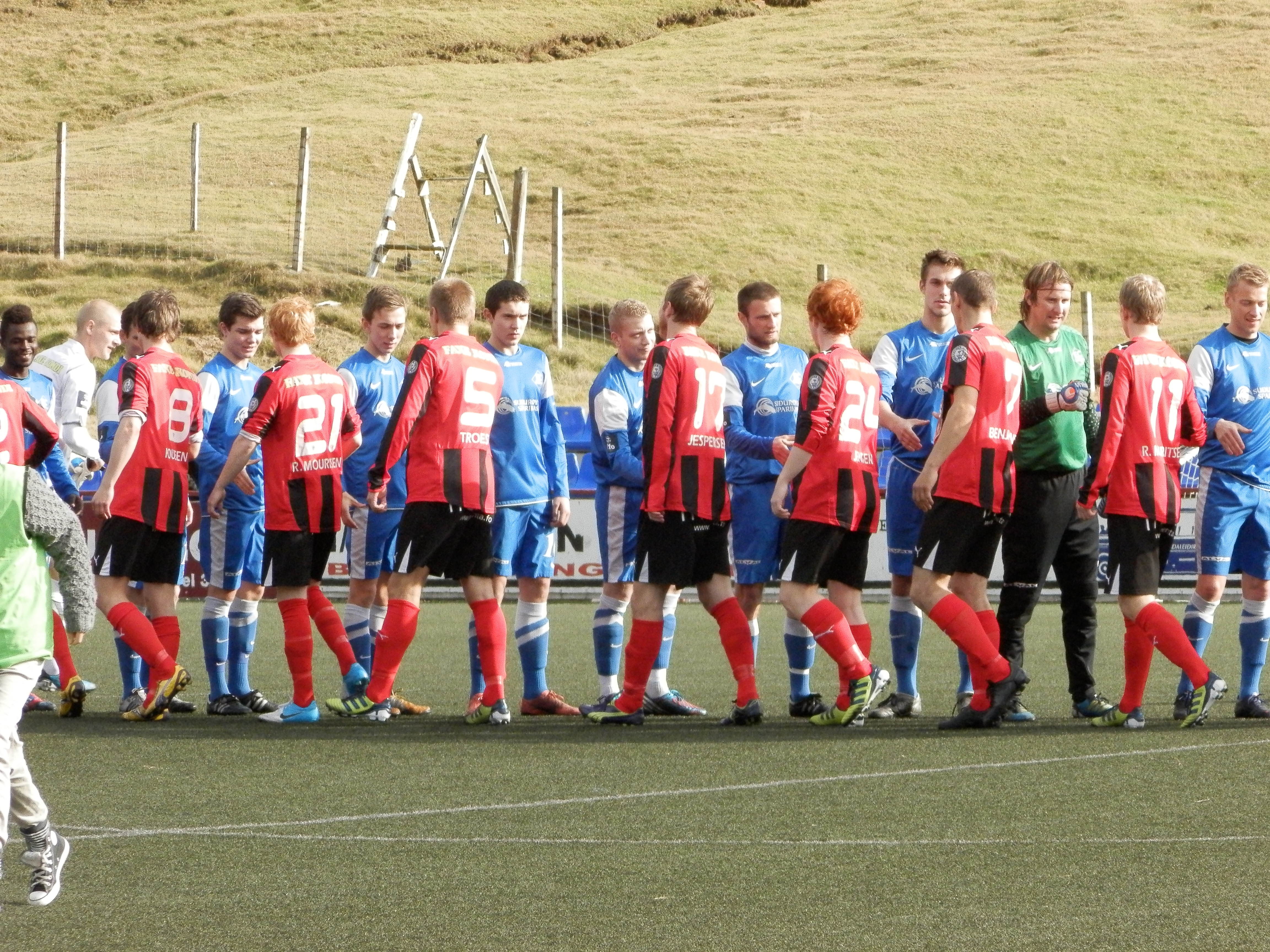 The players of FC Suðuroy and HB Tórshavn are greeting each other just before the match which they played in Vágur on 23 September 2012. HB won the match 4-0. The match was one of the matches in Effodeildin in the third last round. Føroyskt: Leikararnir hjá FC Suðuroy og HB í Effodeildini heilsa uppá hvønn annan beint áðrenn dysturin byrjaði hin 23. september 2012. Dysturin varð leiktur á Eiðinum í Vági. HB vann dystin 4-0.